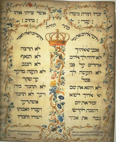 In this 1768 parchment, Jekuthiel Sofer emulated decalogue at the Esnoga Size: 612 x 502 mm Source: [1] at Bibliotheca Rosenthaliana, Amsterdam .a-33